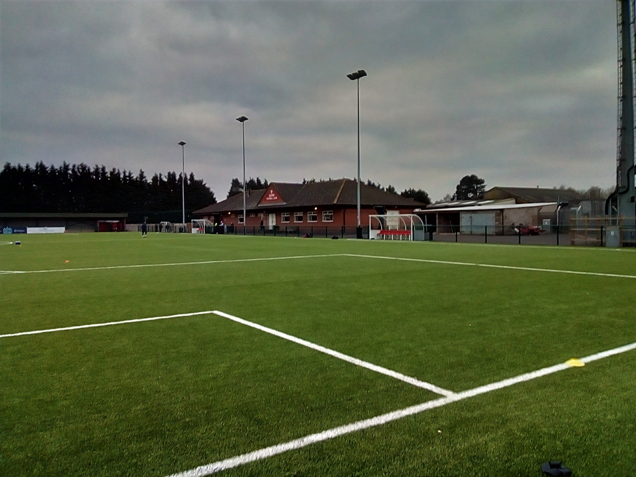 A photo of Farley Way, the home ground of Quorn F.C.